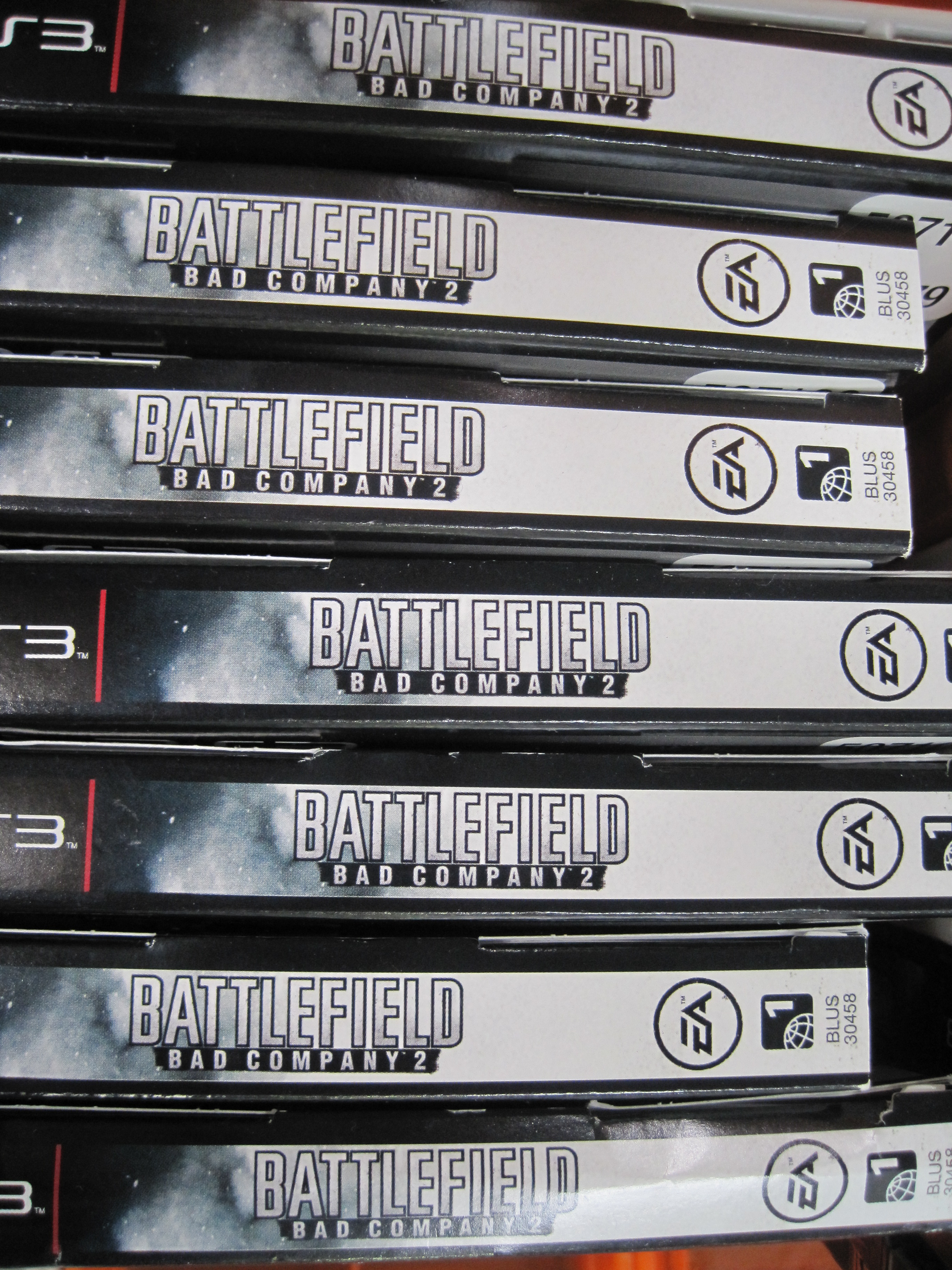 Empty boxes for Battlefield: Bad Company 2 at Costco in South San Francisco, California on El Camino Real. The boxes are taken to the register and the game given to the buyer after purchase to prevent theft.